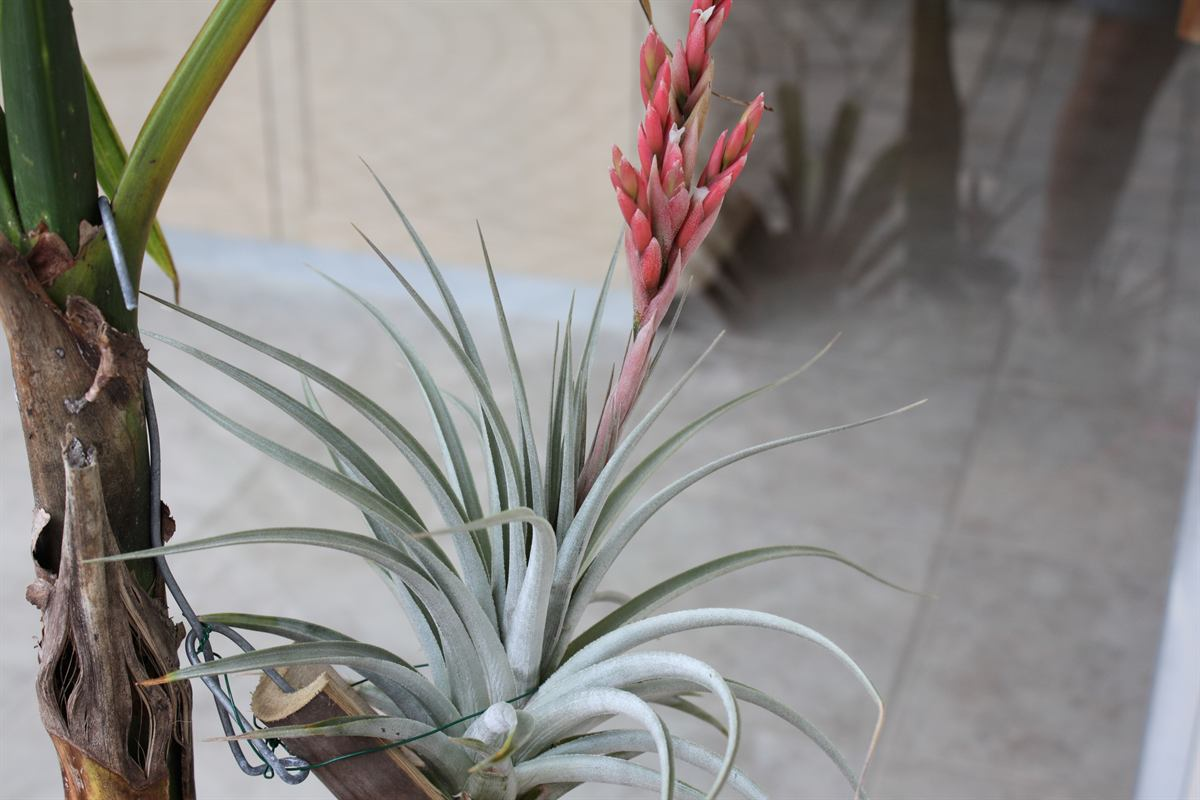 Tillandsia guelzii in bloom